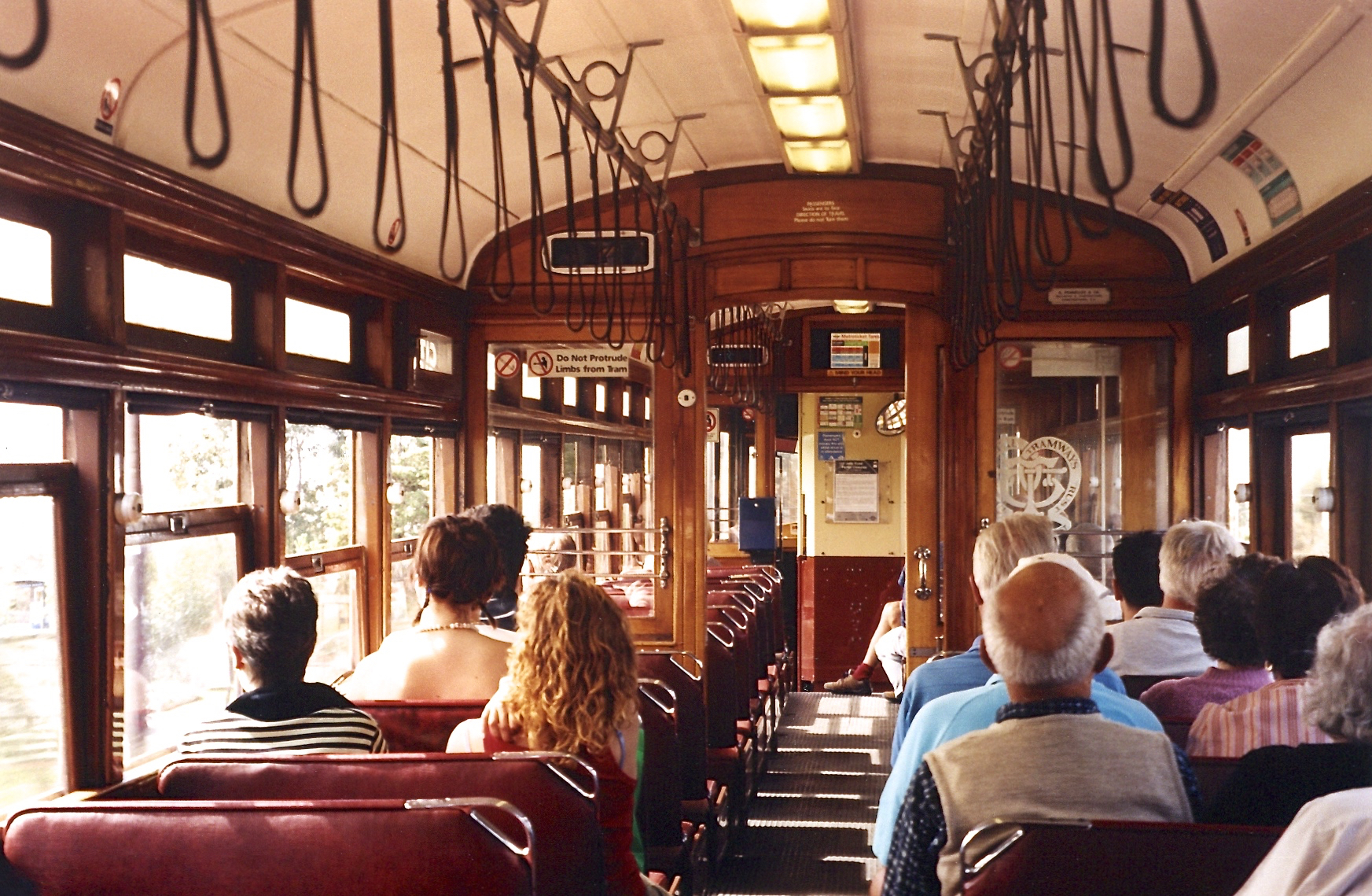 The interior of a Type H tram on the Glenelg line, Adelaide, South Australia, in 2005. Reversible seats upholstered in red leather are occupied by passengers. The photo shows the varnished timber interior, cream ceiling and leather hanging straps.